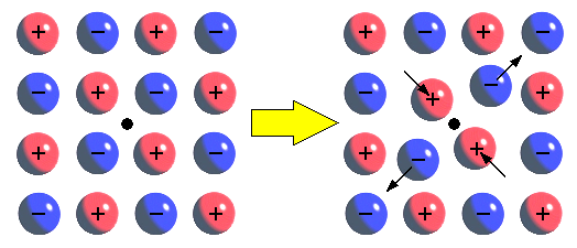 Polaron: interaction of an electron with the ions of the lattice.